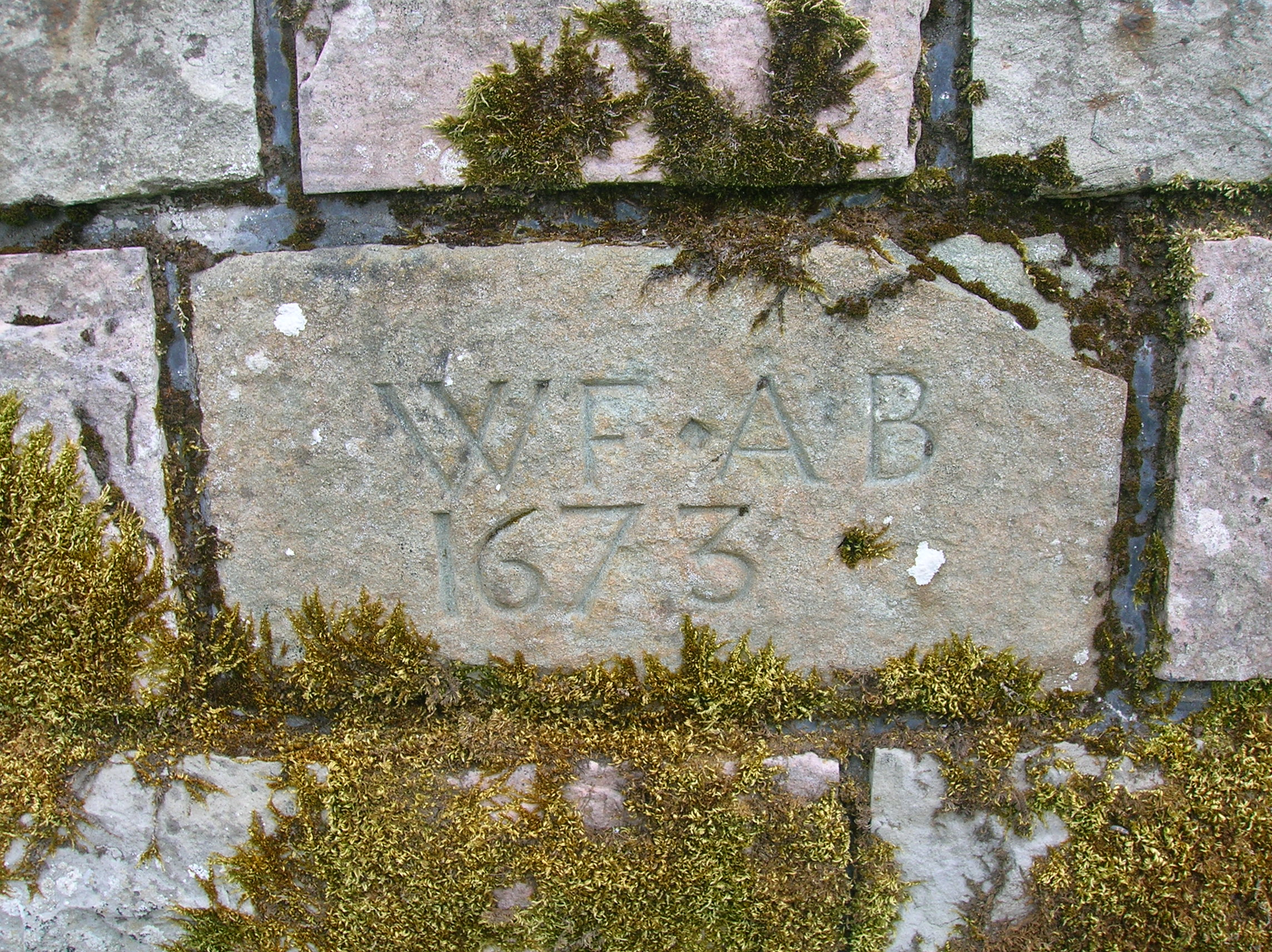 Marriage stone of William Fullarton and Anne Brisbane 1673, Fullarton House, South Ayrshire, Scotland